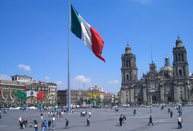 Plaza de la Constitución − Zócalo — in the historic center of Mexico City.